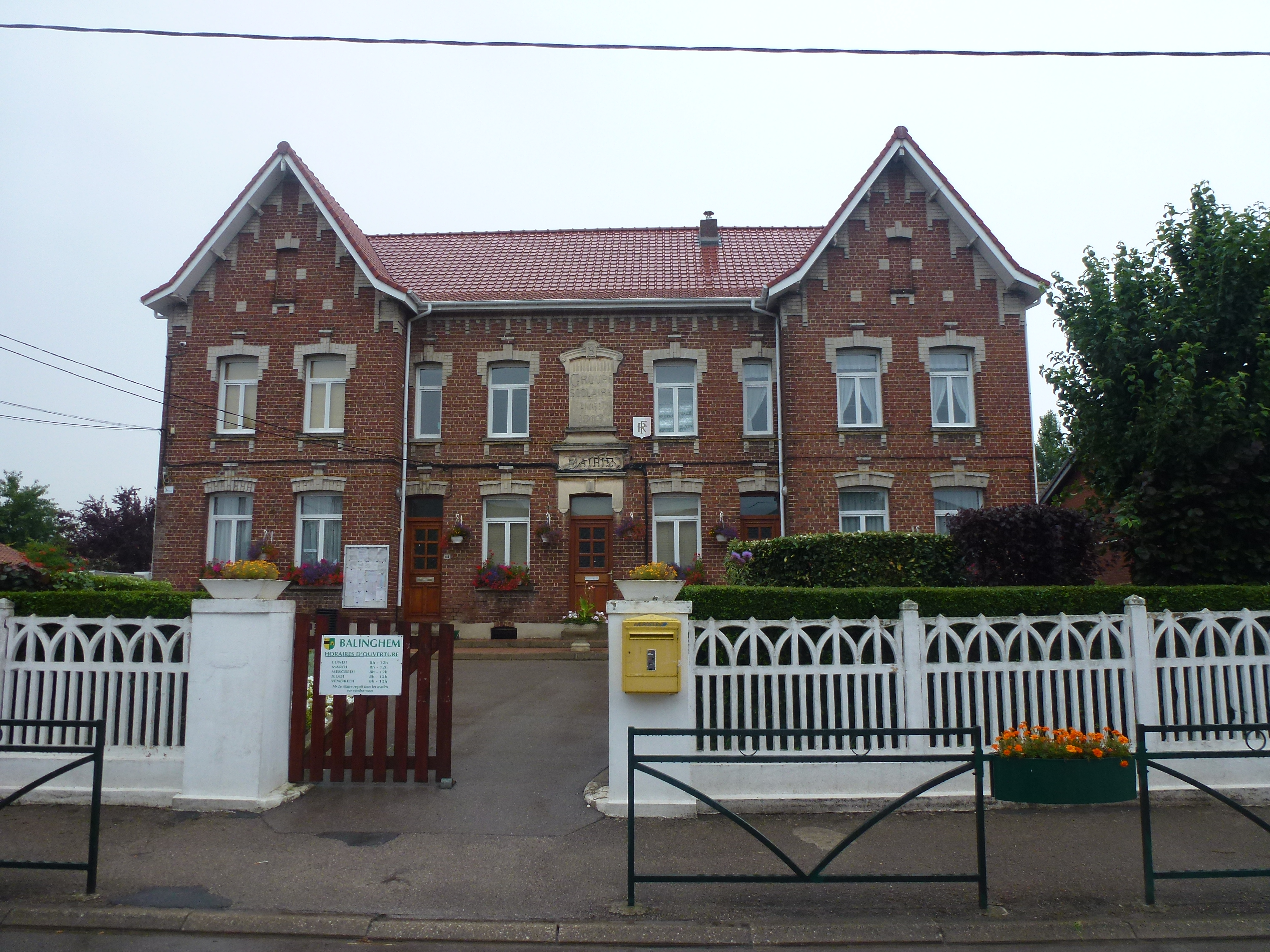 Balinghem (Pas-de-Calais) mairie + école